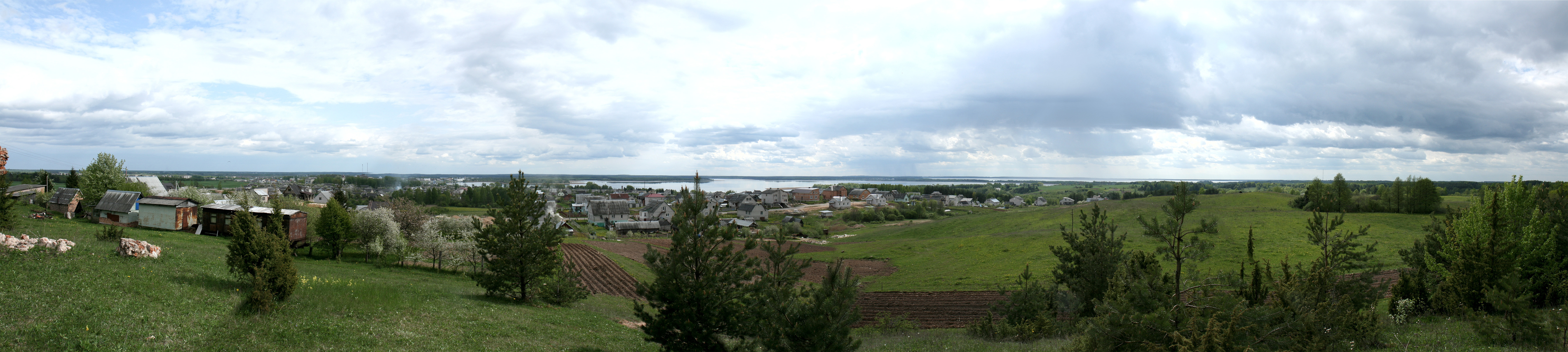 In the center is Miastra lake, to the right is Narač lake, to the left is Miadziel town.